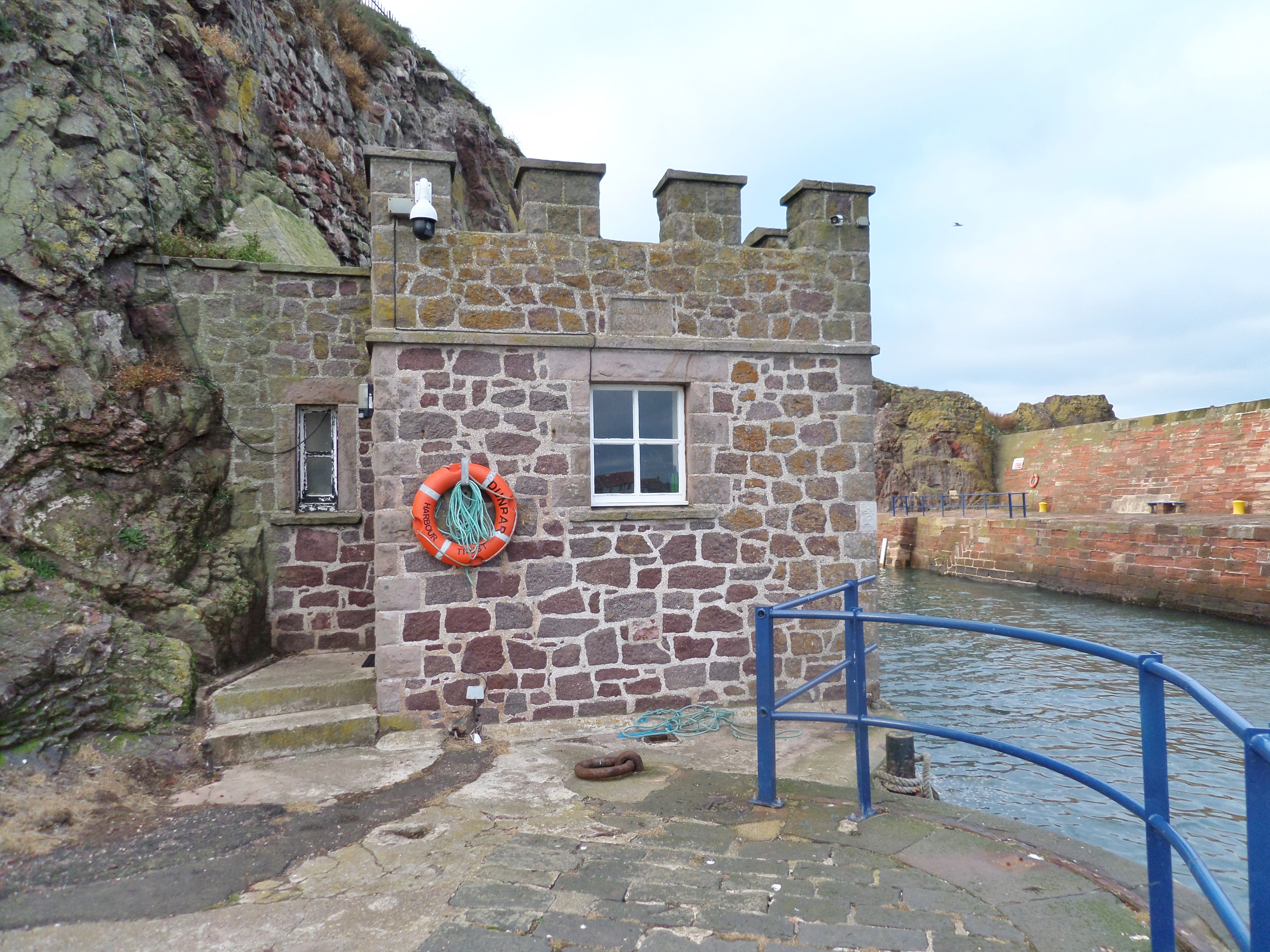 Ordnance Survey Tide Gauge House, Dunbar Harbour, East Lothian - now the harbour master's house. OS set up tide gauges in Felixstowe (1913), Newlyn (1915) and Dunbar (1913). Newlyn was chosen as the single reference.